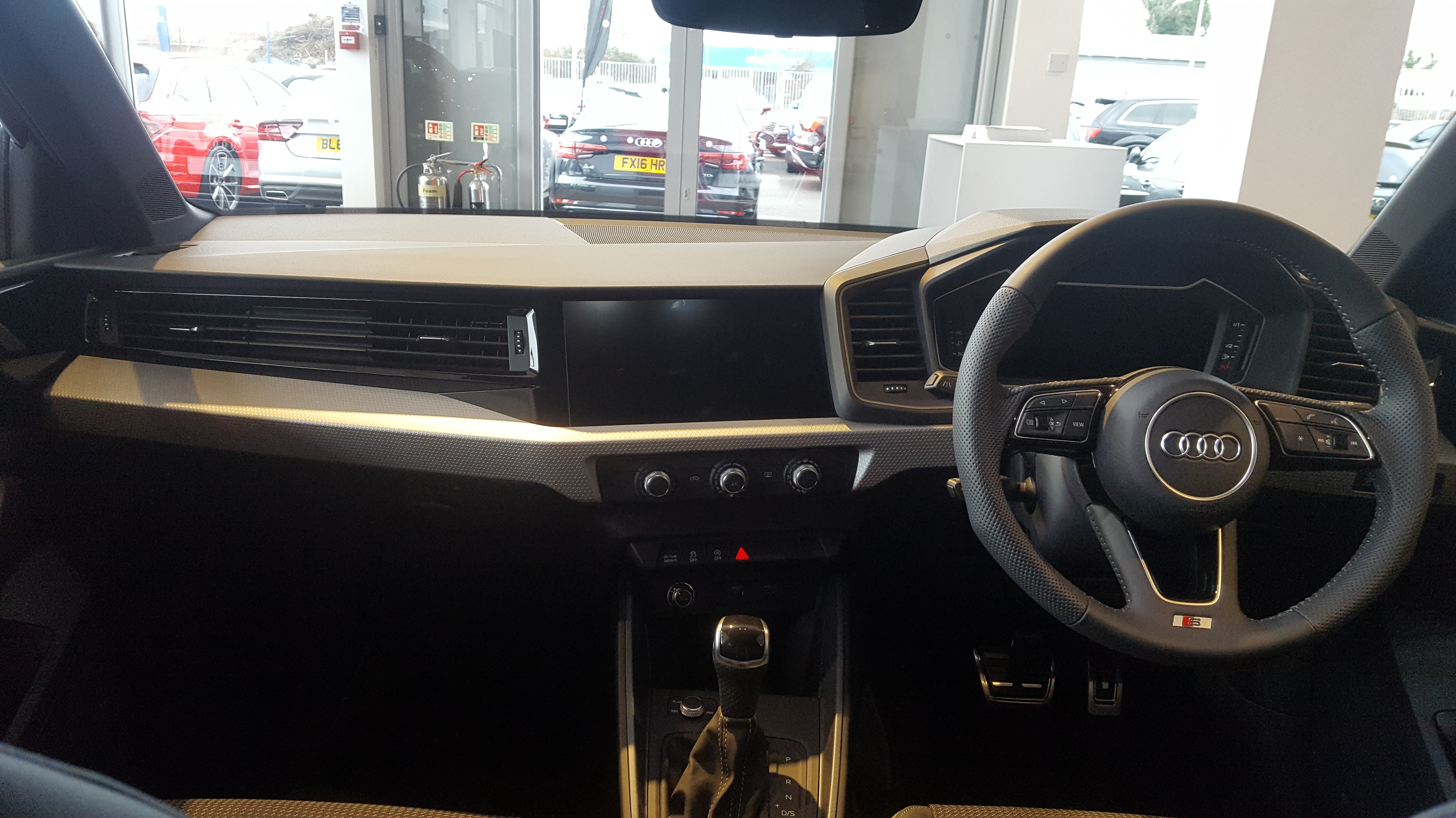 2019 Audi A1 TFSi 30 Interior Taken in Stratford-upon-Avon